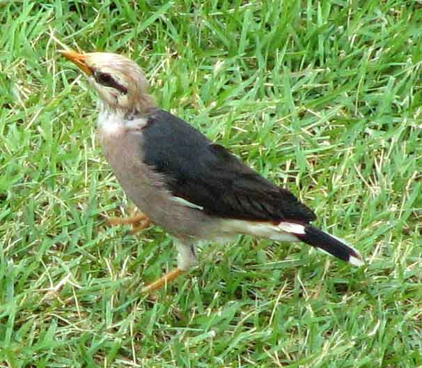 Acridotheres burmannicus. Ramat-Gan, Israel